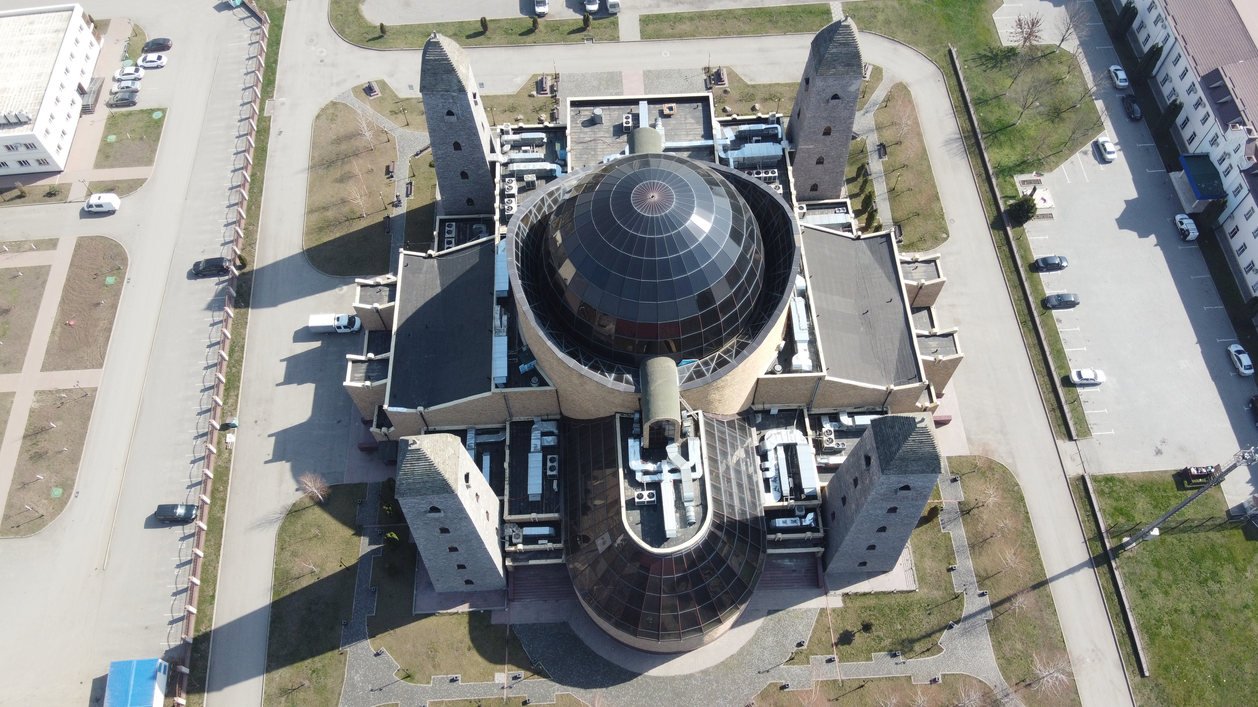 National Museum of Chechen Republic, aerial view